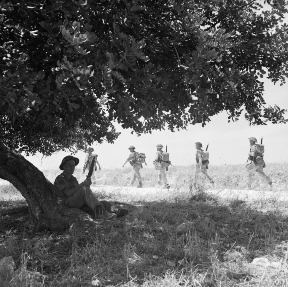 The Invasion of Sicily 1943 Canadian troops of the Carleton and York Regiment, 3rd Infantry Brigade, move inland from the beaches, 13 July 1943.